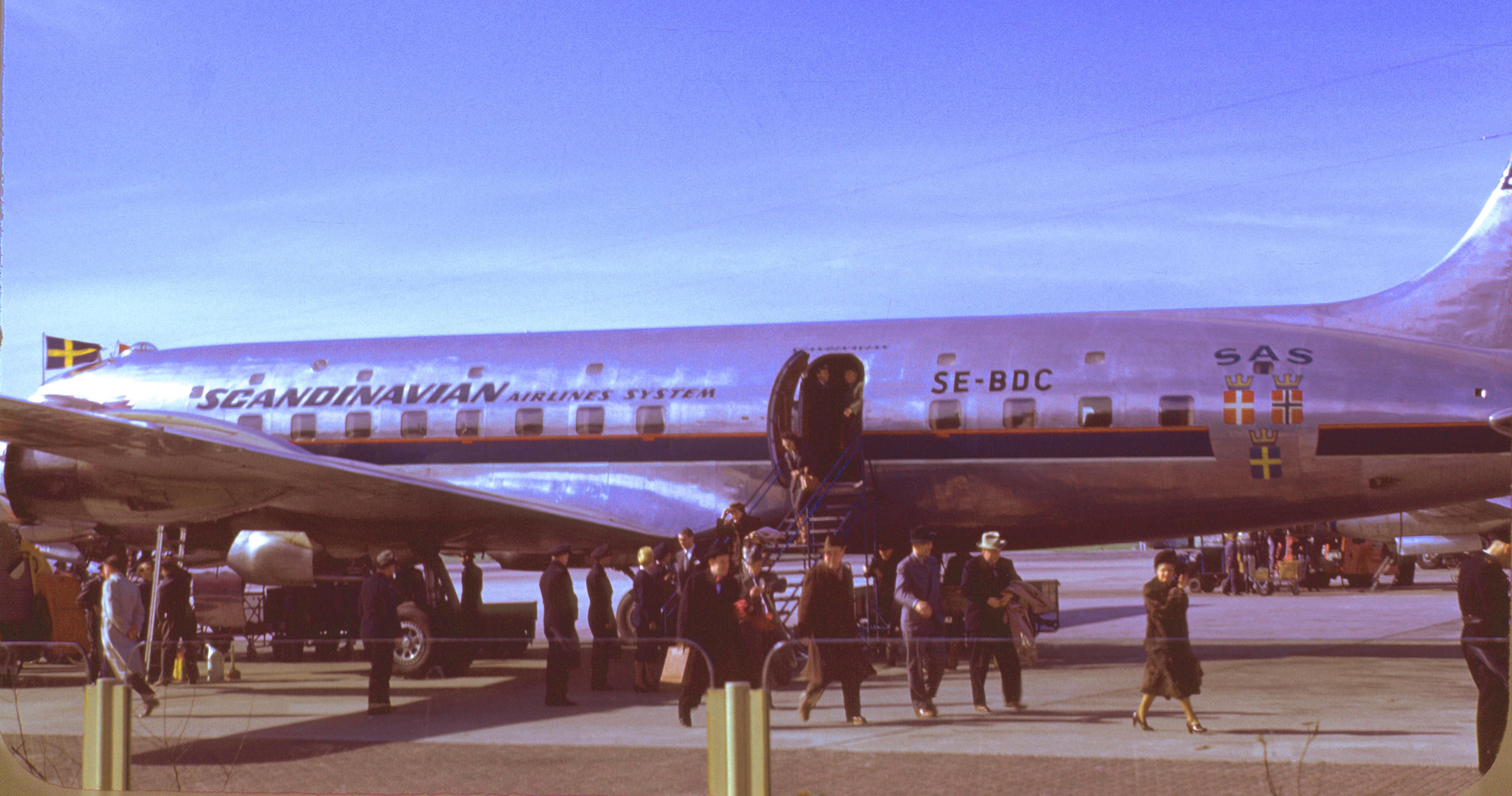 SAS Scandinavian Airlines Douglas DC-6 (SE-BDC) Other images by this contributor